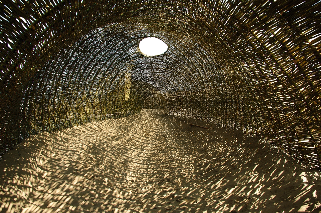 Sandorom. Beaufort04 Triennial of Contemporary Art, Wenduine, Belgium. Marco Casagrande, 2012. Photo: Nikita Wu